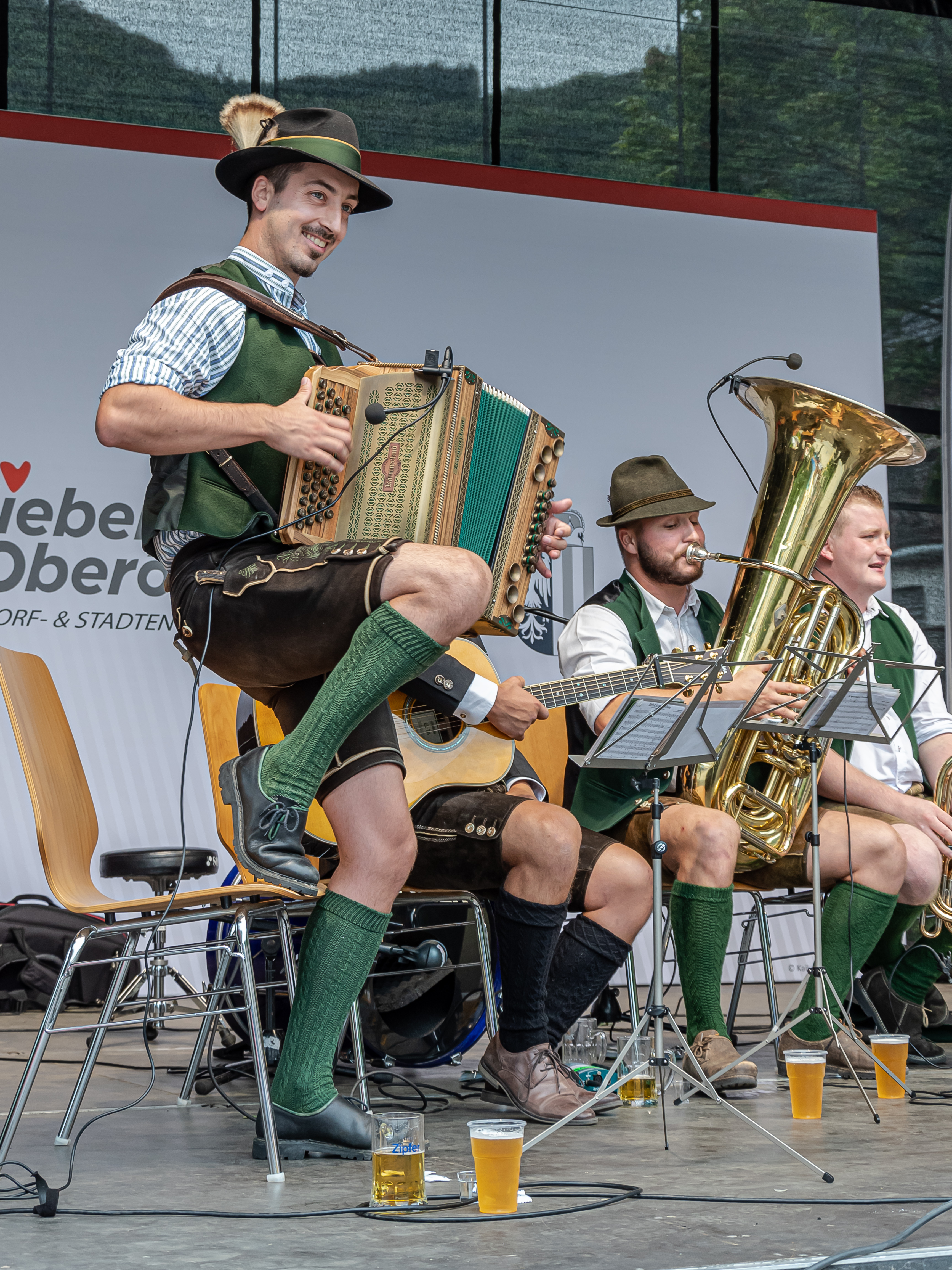 Ternberger Musibuam, performance in framework programme during townscape fair (Ortsbildmesse) in Ternberg, Upper Austria